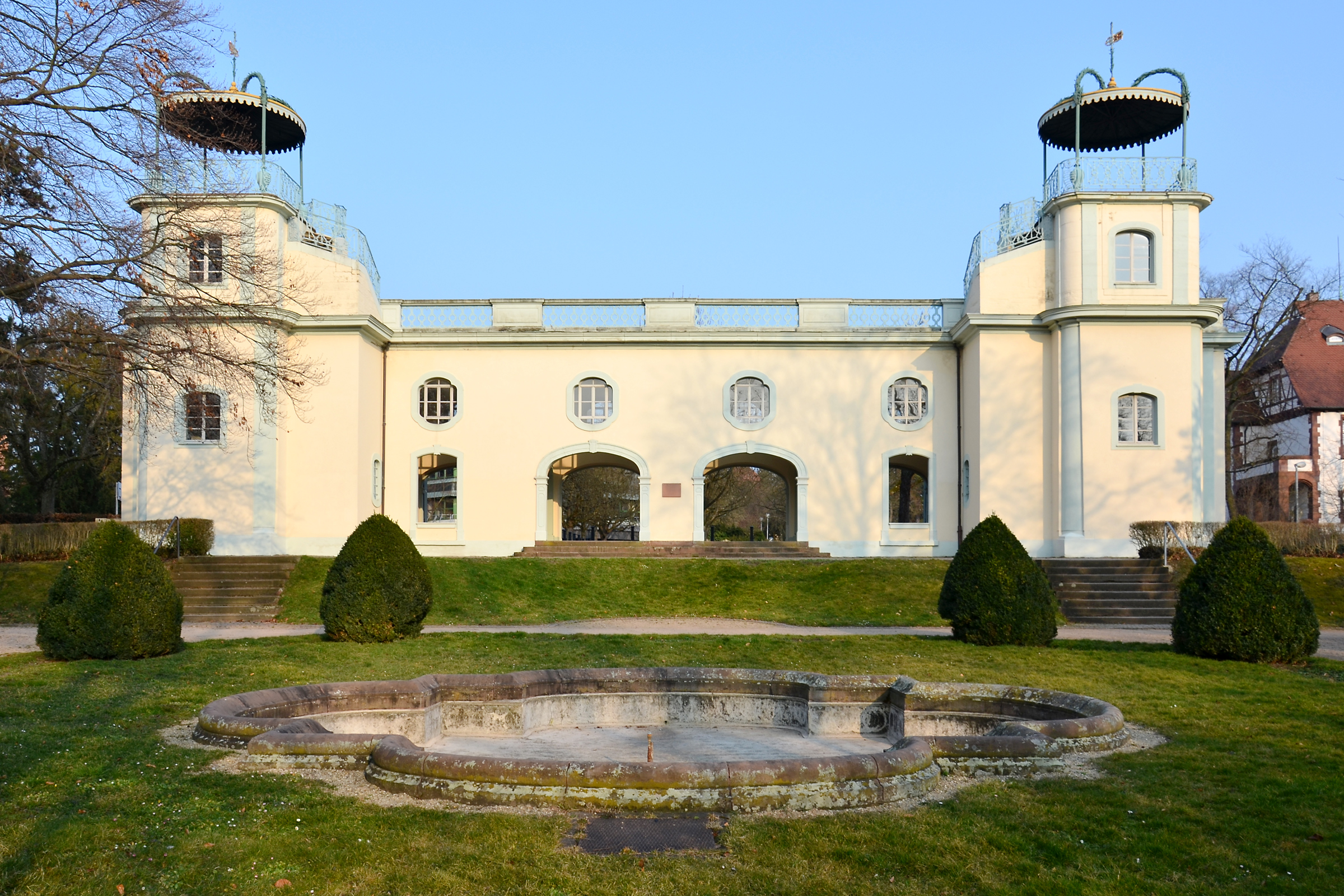 Belvedere Bruchsal